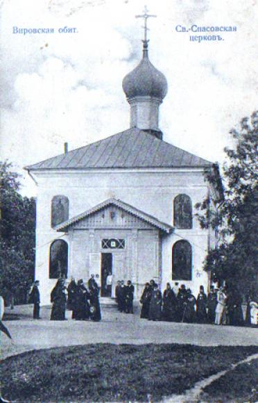 Orthodox church of St. Seraphim of Sarov in Wirów monastery. A postcard from Aleksander Sosna's collection.